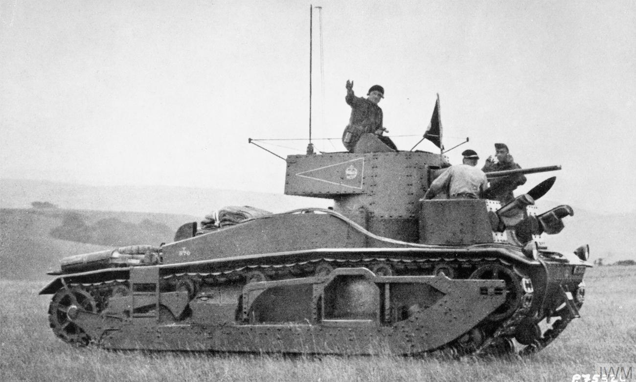 Photograph of Medium Tank Mk.III (Command vehicle)